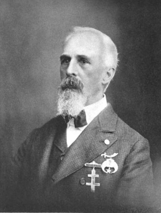 Prosper P. Parker (December 26, 1835 – March 16, 1918), Canadian-born, American businessman and politician.